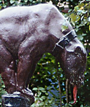 This is the Little Brown Bear statue at Brown University prior to restoration. Note the tongue painted red.